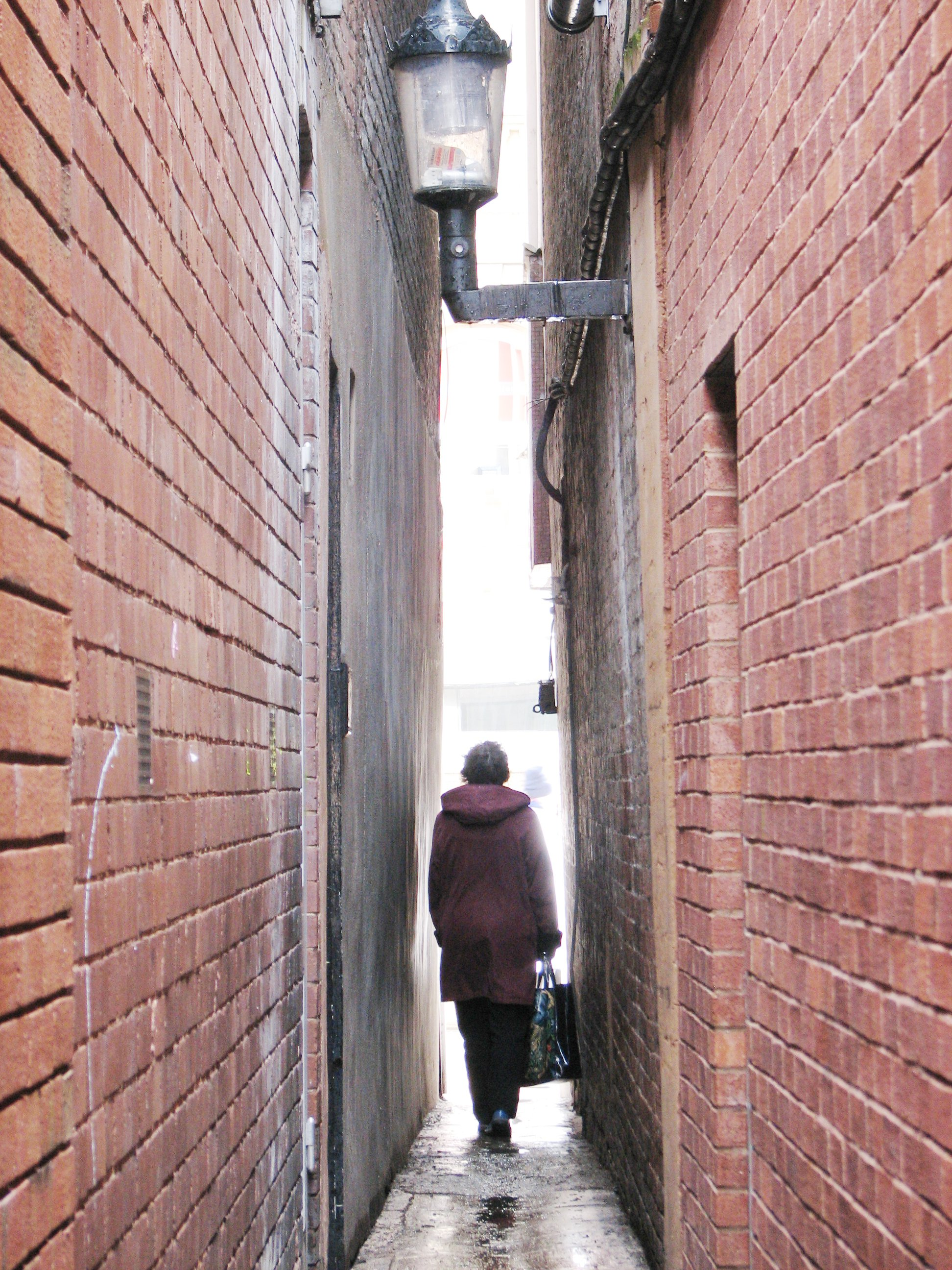 Parliament Street, Exeter. The person in the photo has given her permission for the photo to be used.